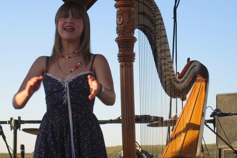 Her voice is like a child, a crone, Björk meets otherworldy impish fairy creature Sasquatch Music Festival @ The Gorge, WA